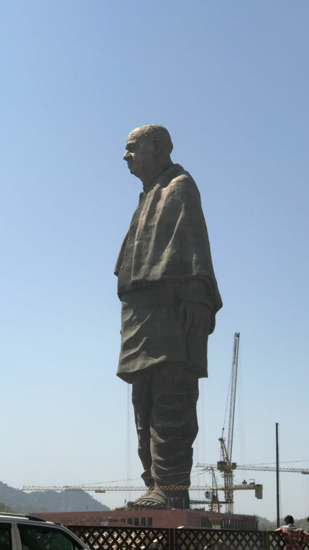 Sardar vallabh bhai patel statue